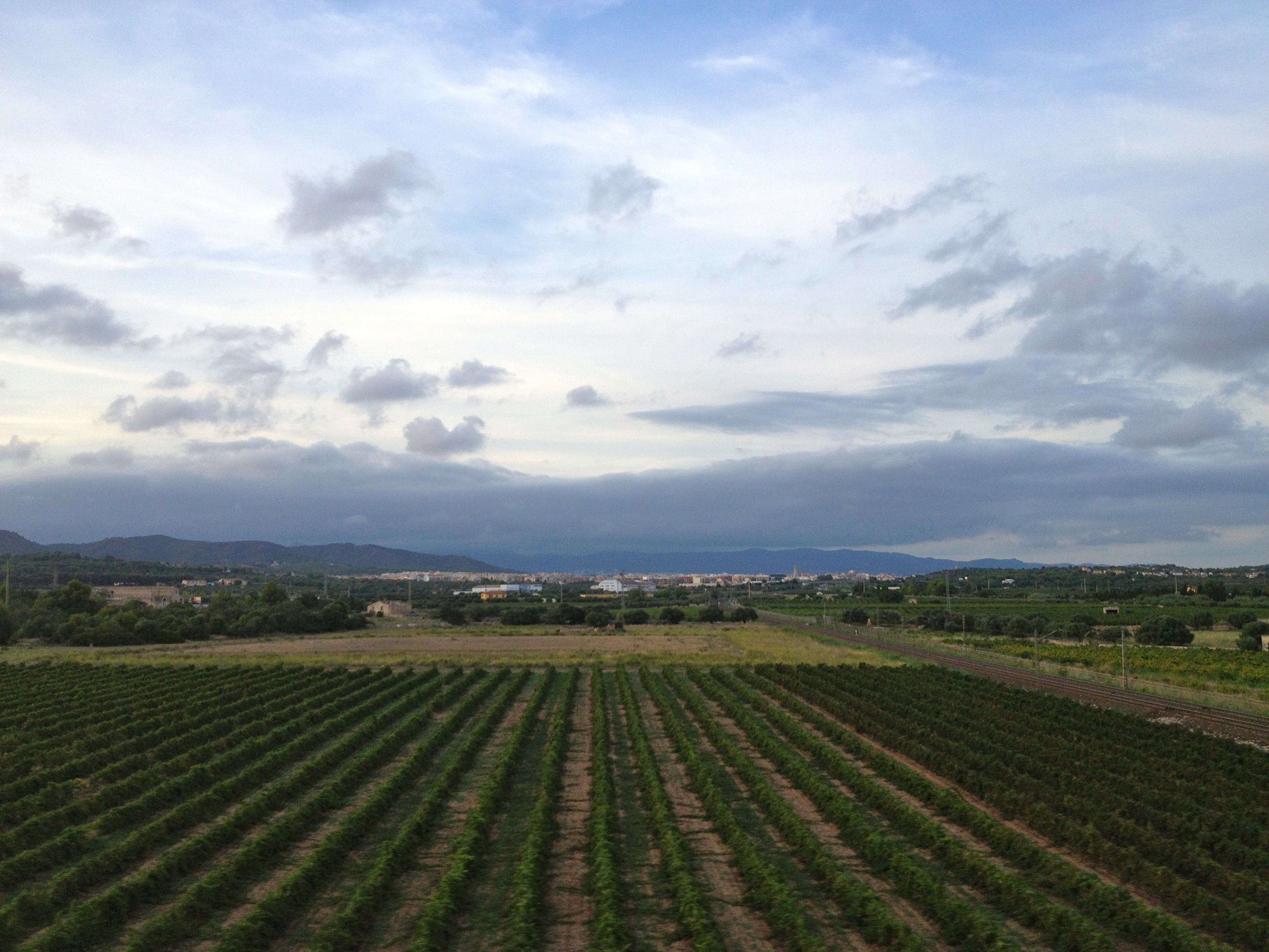 Fields near El Vendrell